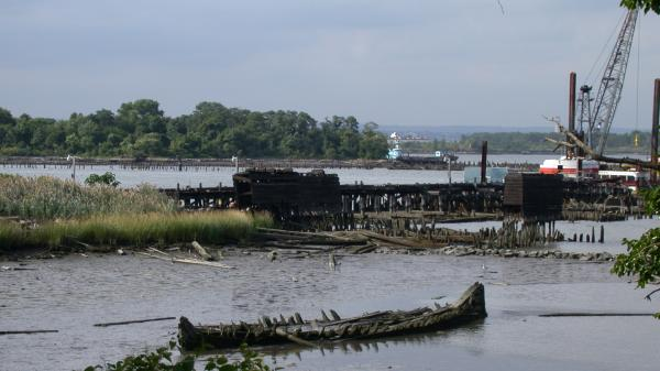 The eastern end of Shooters Island (background), seen from Mariners Harbor. Decayed pier remnants along the shore of Staten Island are shown in the foreground. © 2004 Matthew Trump